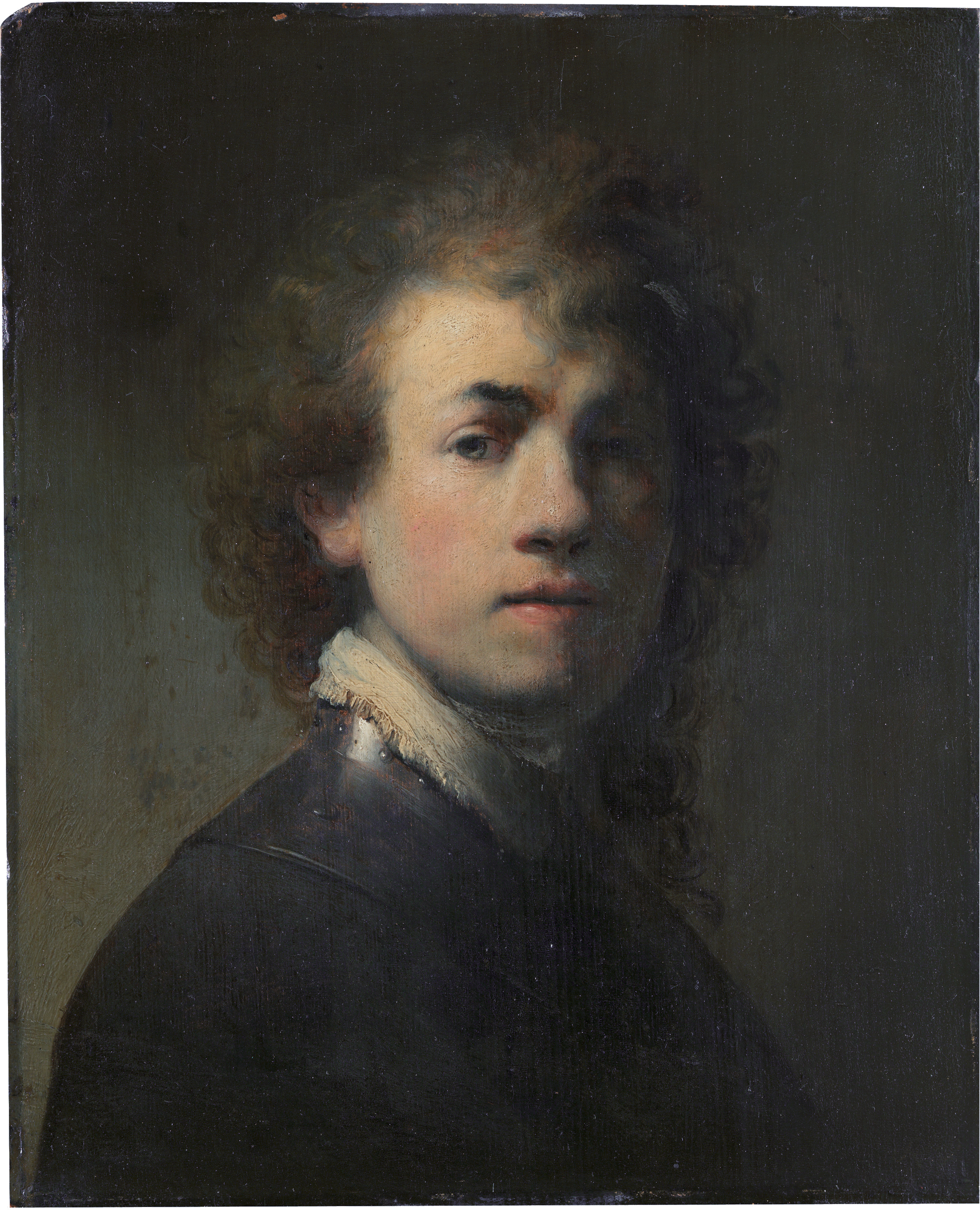 Self Portrait with gorget oil on panel 38,2 x 31 cm signed b.r.: RHL. f circa 1629